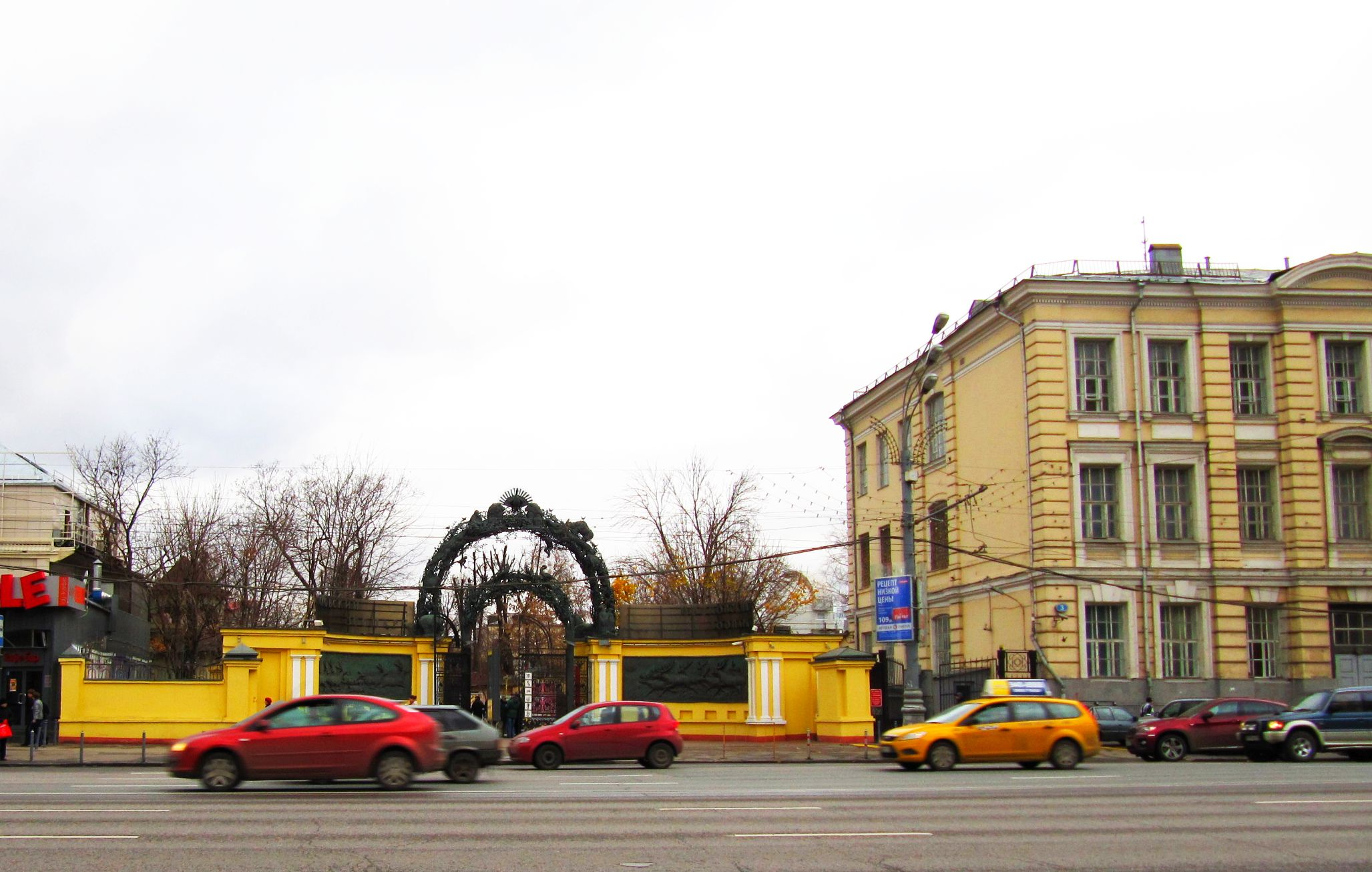 Entrance to the Moscow Zoo. View from Garden Ring.